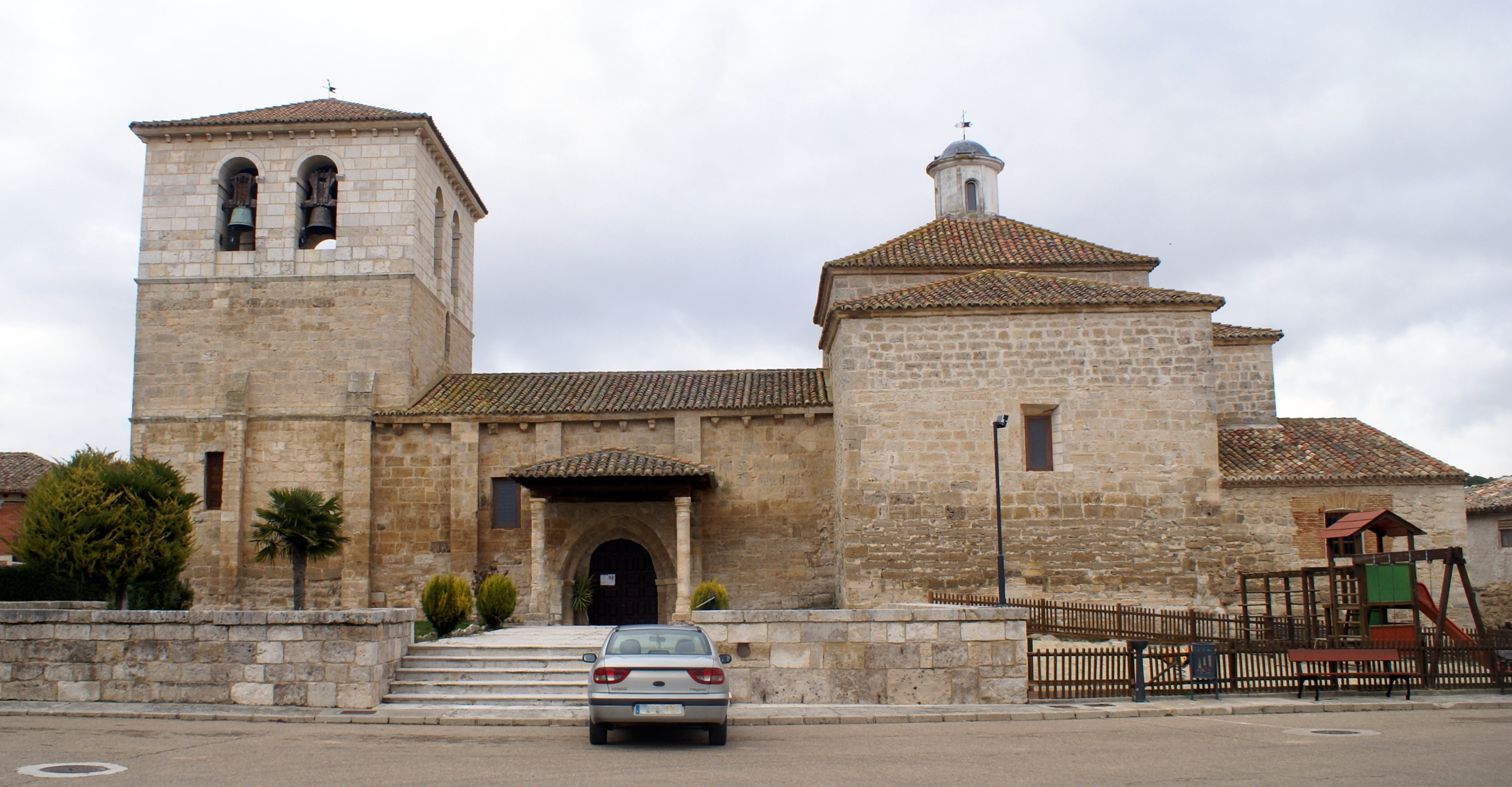 Church of Cubillas de Santa Marta, Valladolid, Spain.